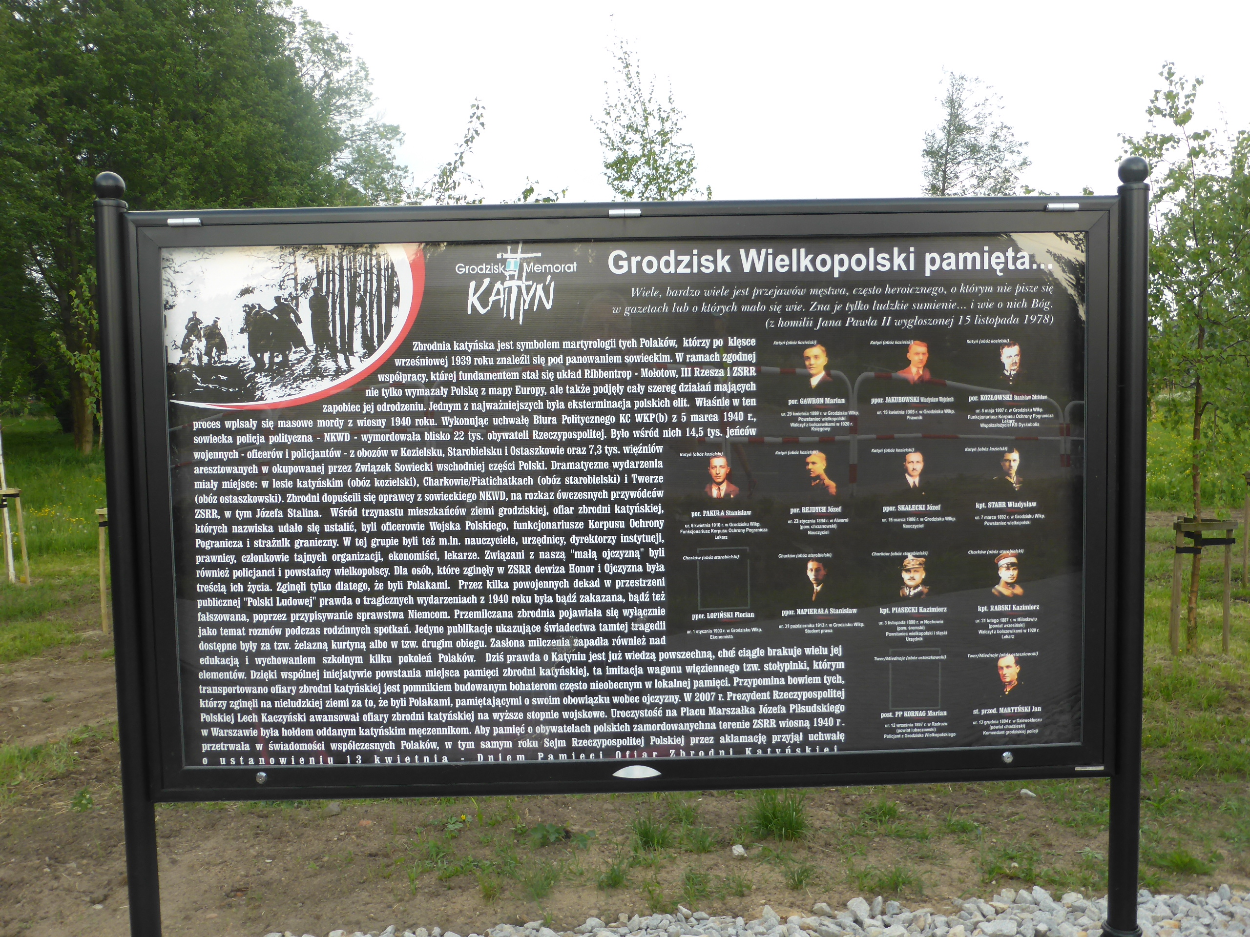 Plaque of the Katyń Massacre in Grodzisk Wlkp.